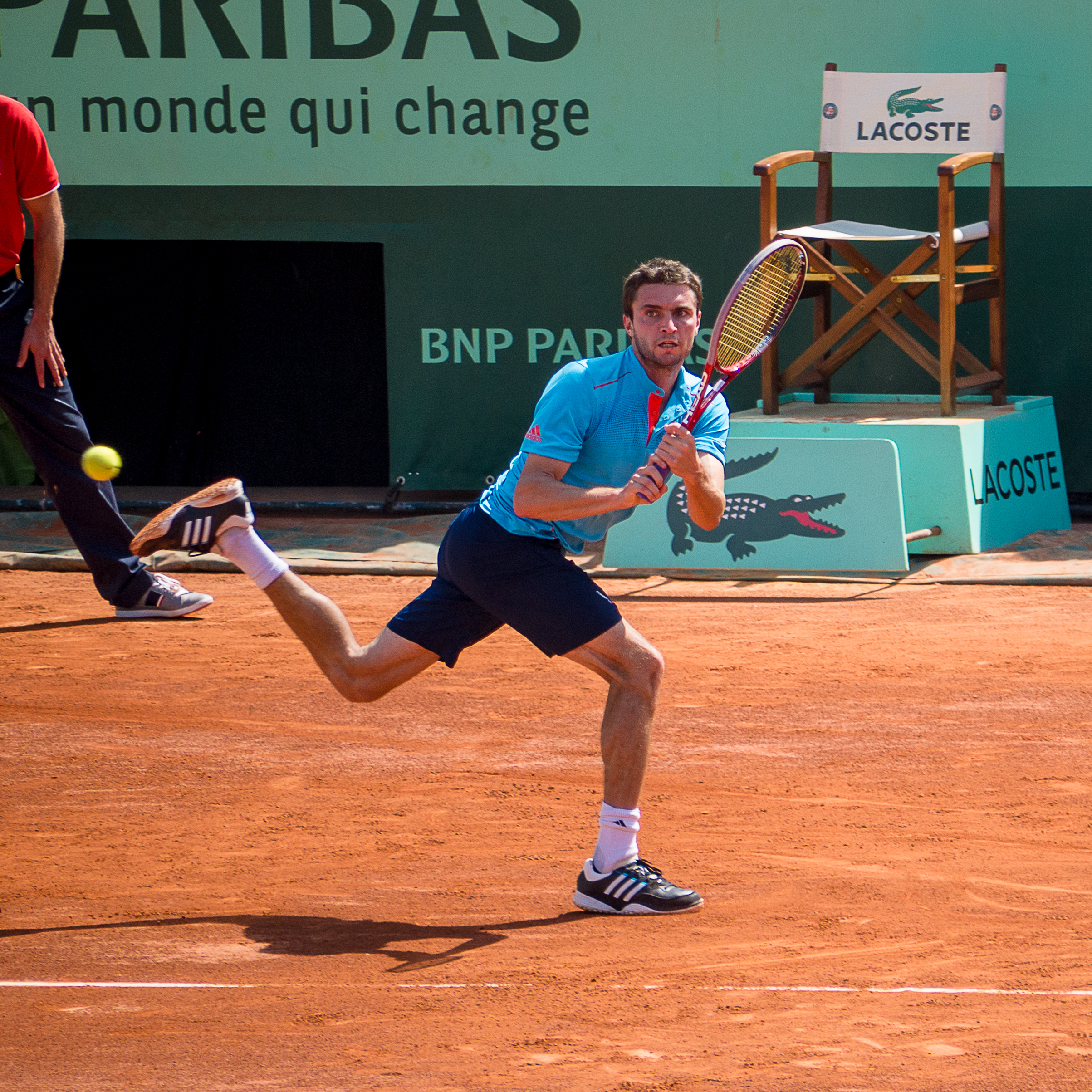 2ème tour Roland Garros 2012 : Gilles Simon (FRA) def. Brian Baker (USA)